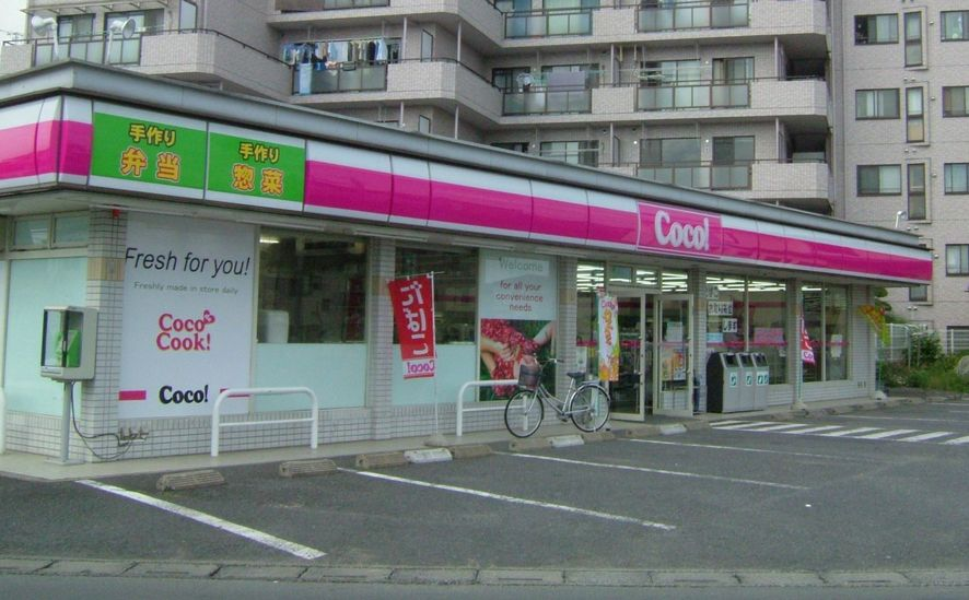 Cocostore at Kasukabe Kamihiruda Saitama